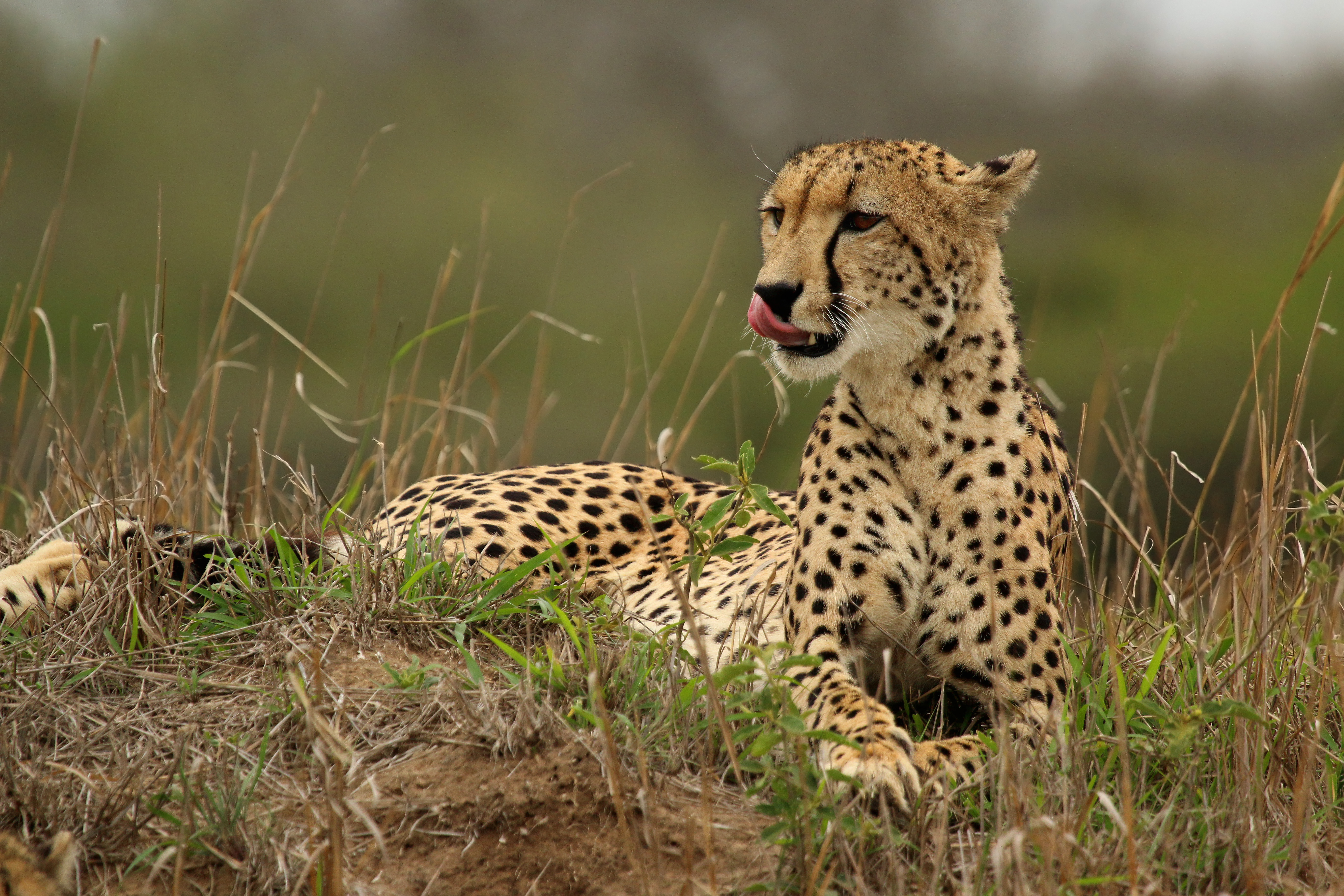 Cheetah (Acinonyx jubatus) female, Phinda Private Game Reserve, KwaZulu Natal, South Africa.